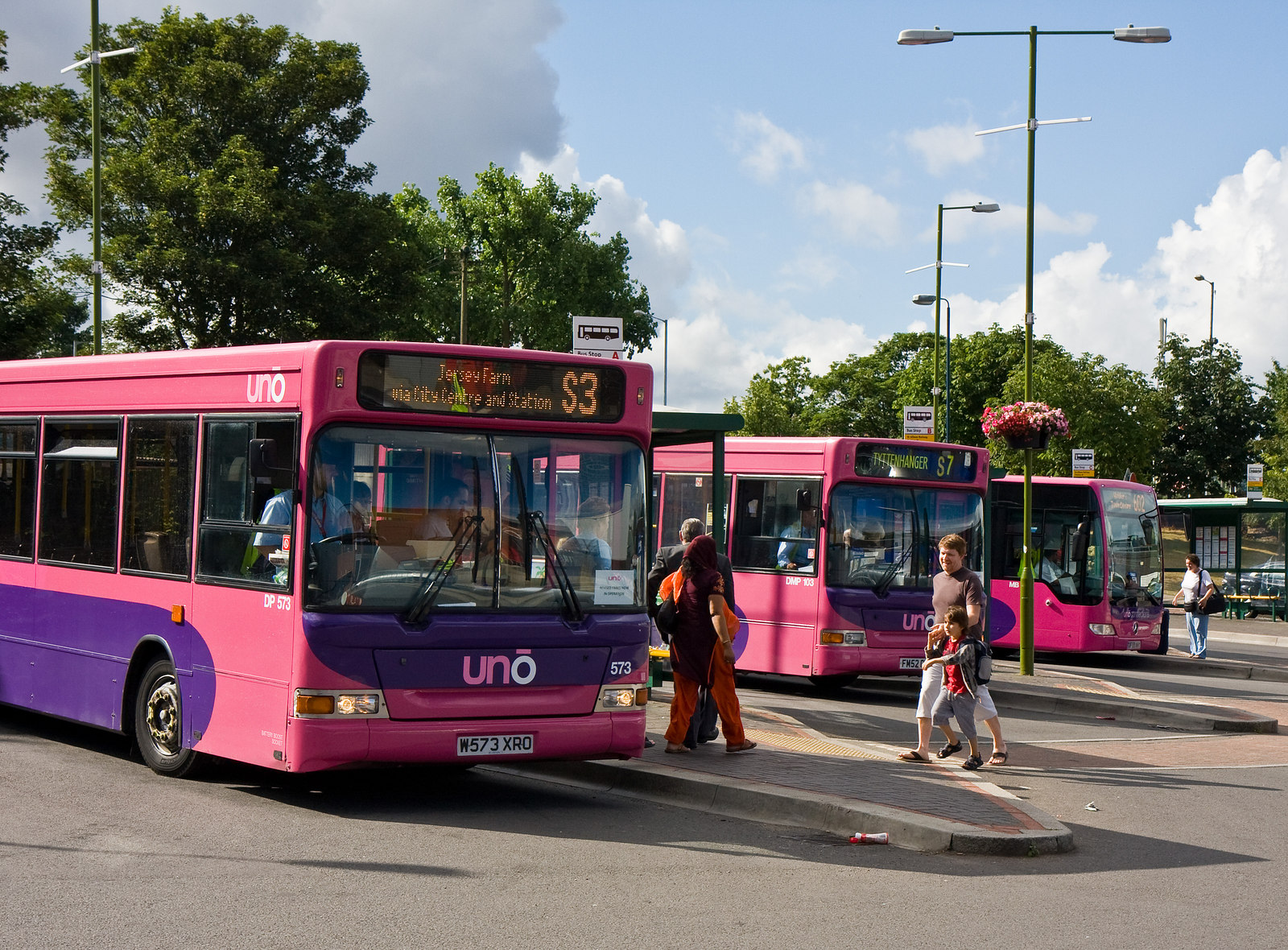 09:30 St. Albans City Station. Buses had been passing through the station one or two at a time, then suddenly at 09:30 all the island stands had buses with others queuing behind! Presumably the timetables are planned to connect with London bound services - or perhaps it was just a result of rush hour traffic. Anyway, the Uno buses certainly make for a colourful start to the day! Uno is the operating name of UniversityBus. The company was set up by the University of Hertfordshire in 1992 to provide student transport to the expanding university from local areas as well as improving east-west travel across the county and opening up new links from North London. It is now a major bus service provider.